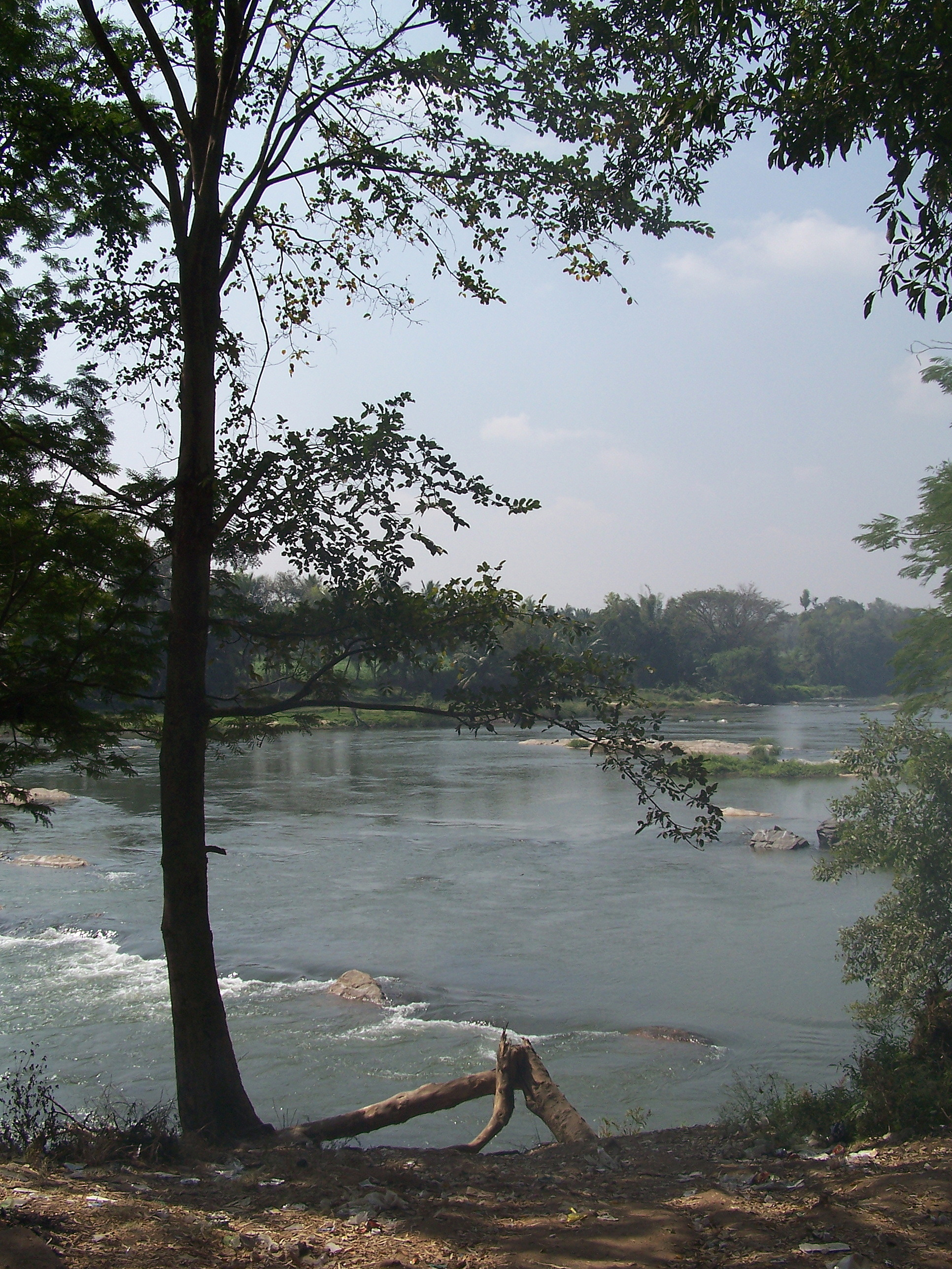 Cauvery River At Srirangapatnam